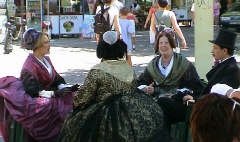 Citizens of Arles in traditional costume.